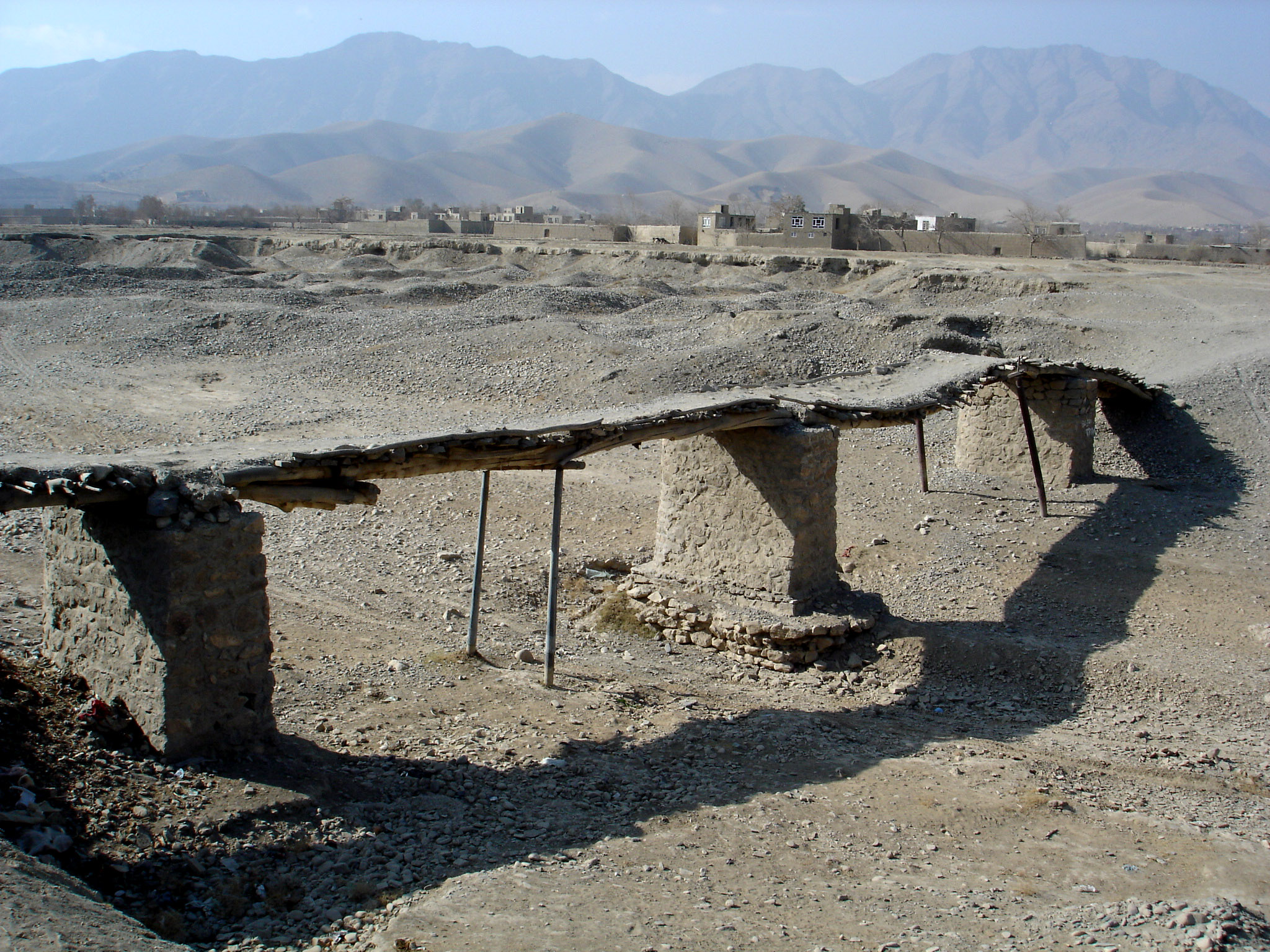 A temporary footbbridge over the Kabul River in Afghanistan.